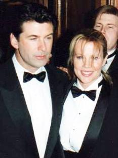 Alec Baldwin and Kim Basinger attending the 19th César Awards, held at the Théâtre du Châtelet in Paris, France, on February 26, 1994